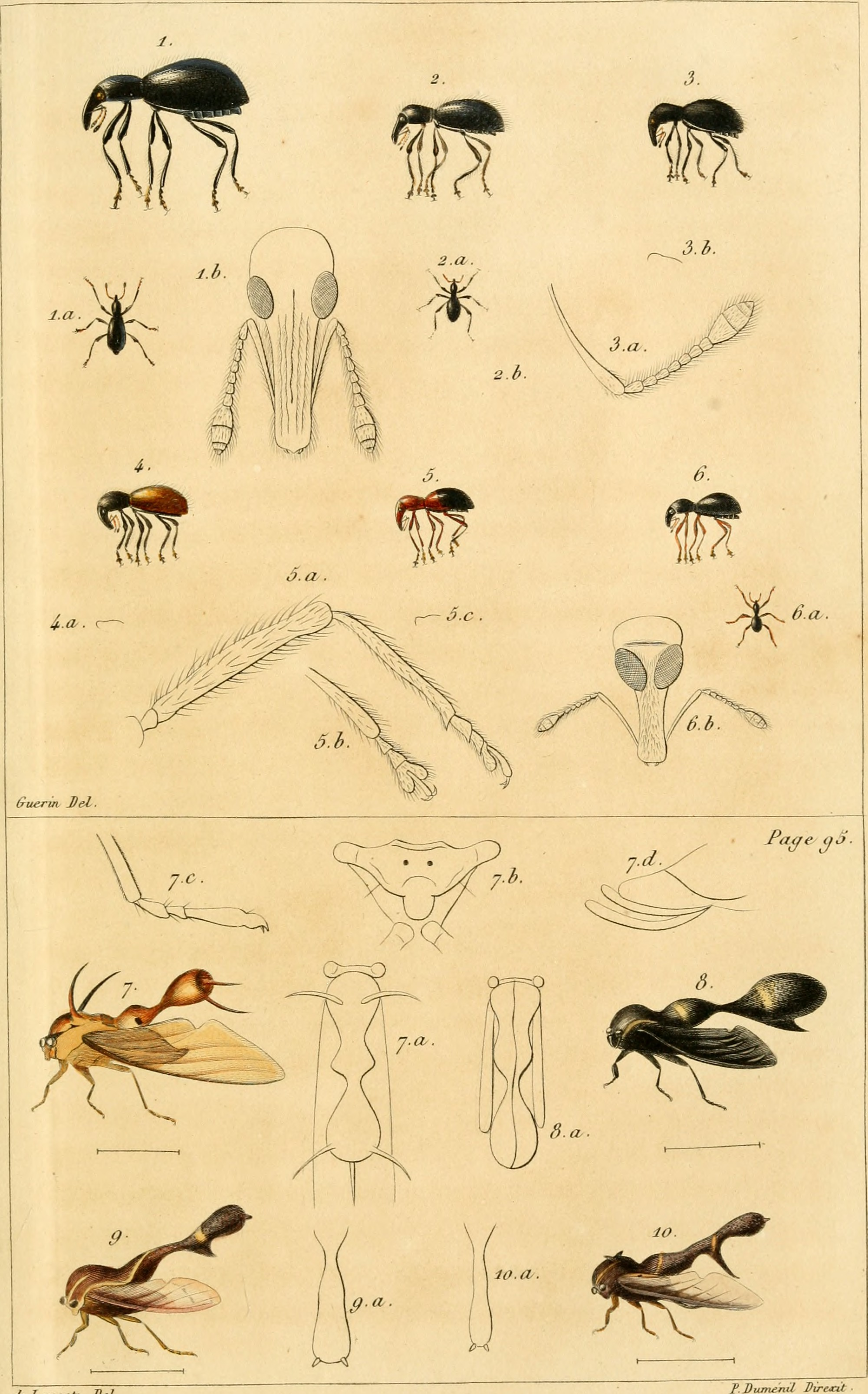 Title: Annales de la Société entomologique de France Year: 1832 (1830s) Authors: Société entomologique de France; Société entomologique de France. Bulletin de la Société entomologique de France 1833-94 Subjects: Insects; Entomology Publisher: Paris : La Société Text Appearing Before Image: Ann. de la Soc. Entomologique. Tom I. Page 98. Pl. III Text Appearing After Image: de Laporte Del P. Duménil Direxit 1. Otiocephalus Mexicanus. 2. Otio. Pilosus. 3. Otio. Americanus. 4. Otio. Flavipennis. 5. Otio. Poey. 6. Otio. Formicarius. 7. Heteronotus Spinosus. 8. Het. Nigricans. 9. Het. Flavolineatus. 10. Het. Inermis.